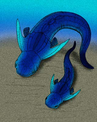 My reconstruction of the Chinese petalichthyid, Quasipetalichthys haikouensis